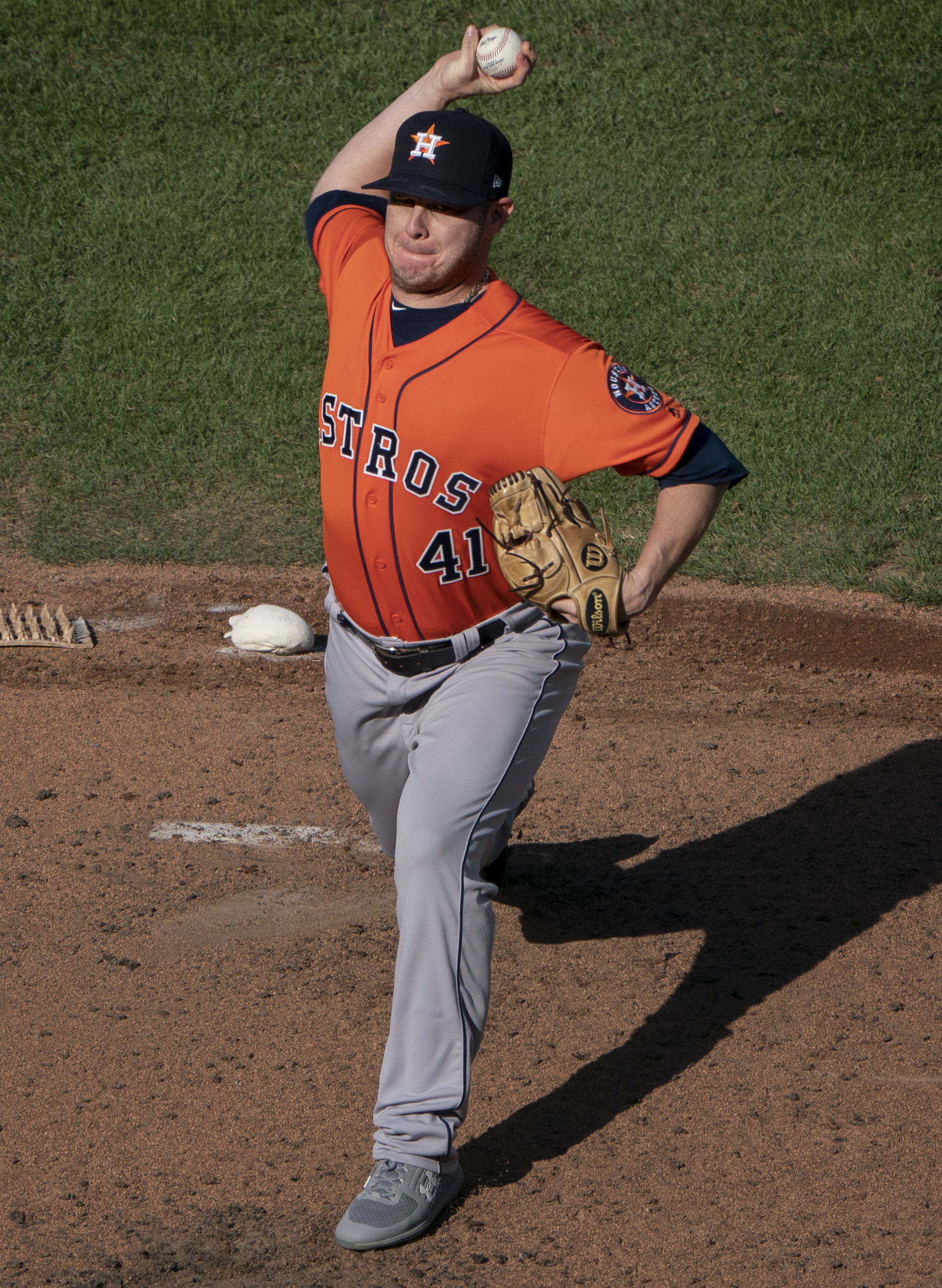 Astros at Orioles 09/30/18